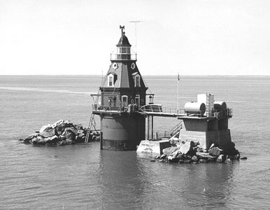 Undated United States Coast Guard photograph of Ship John Shoal Light (original here)